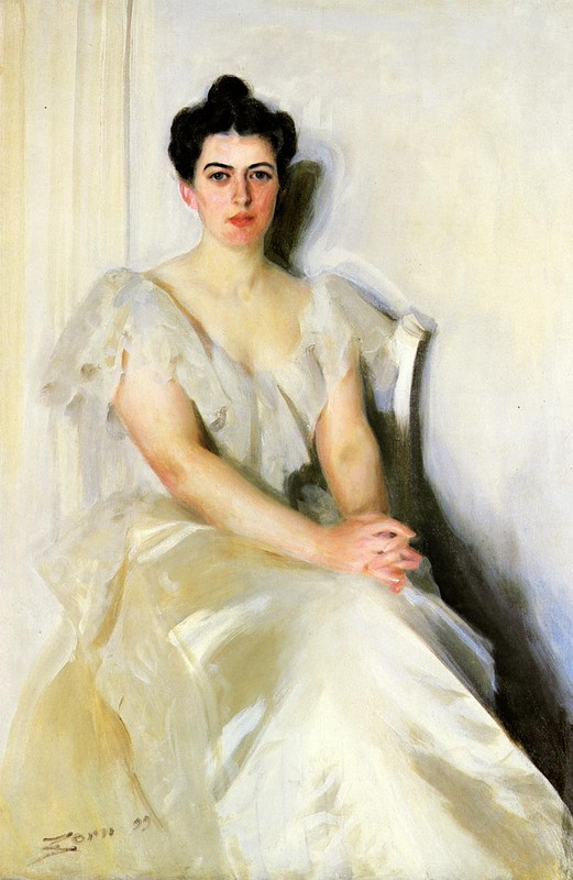 Wife of President Grover Cleveland